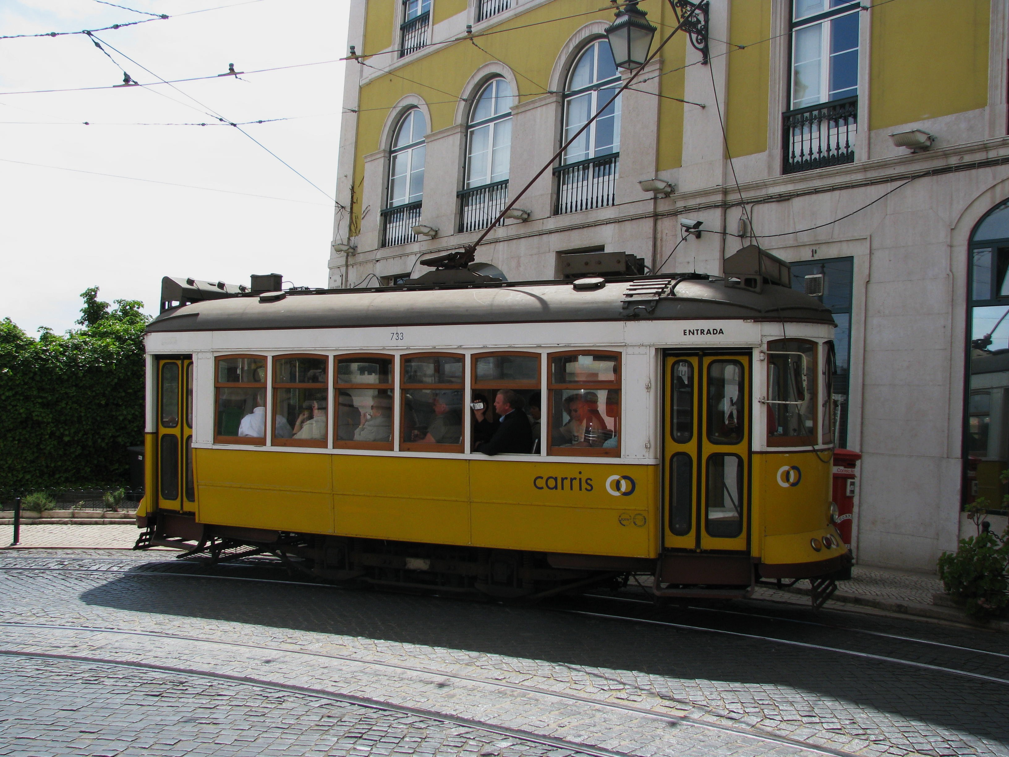 Trams in Lisbon